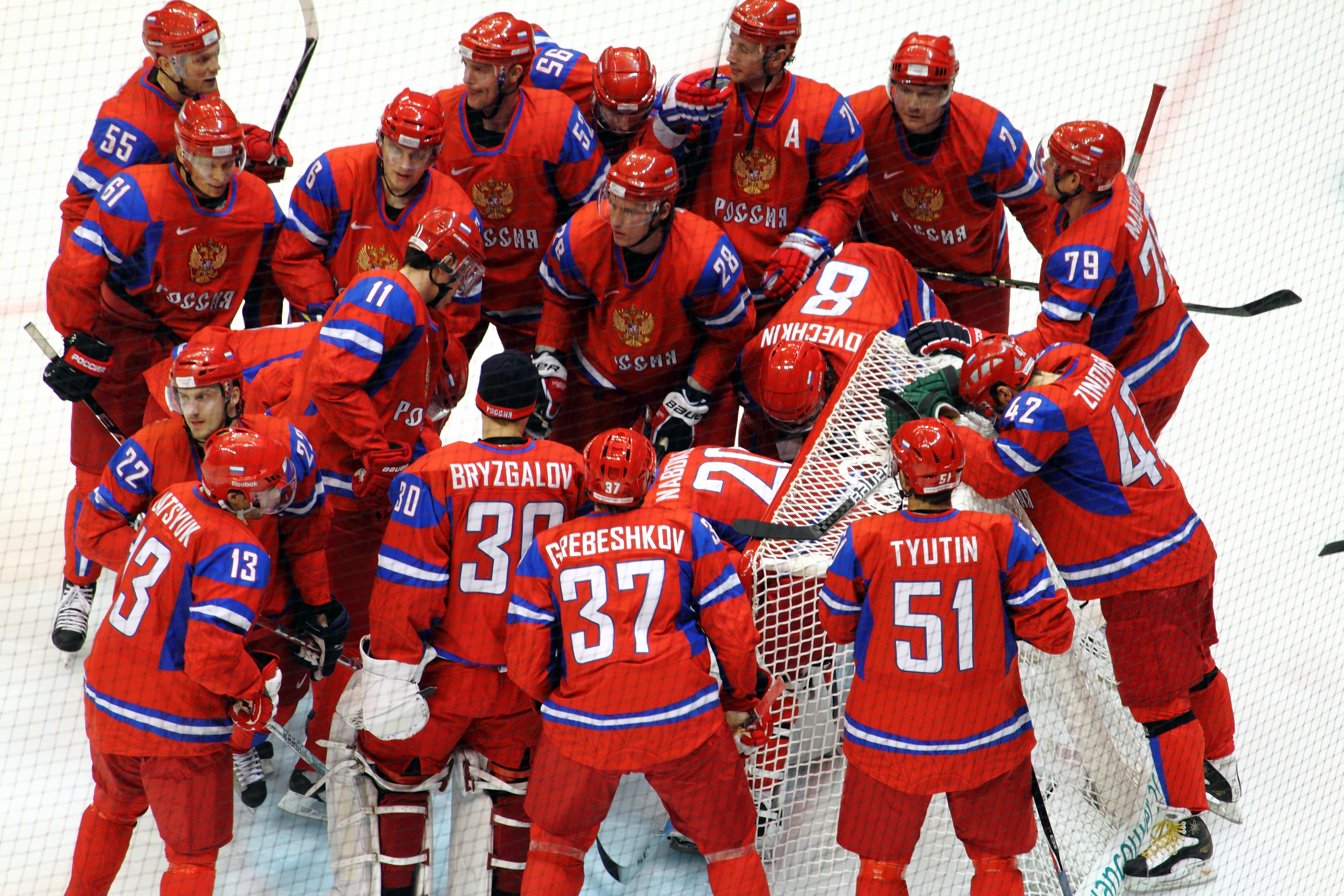 Russia vs Latvia. 2010 Vancouver Olympic Games.